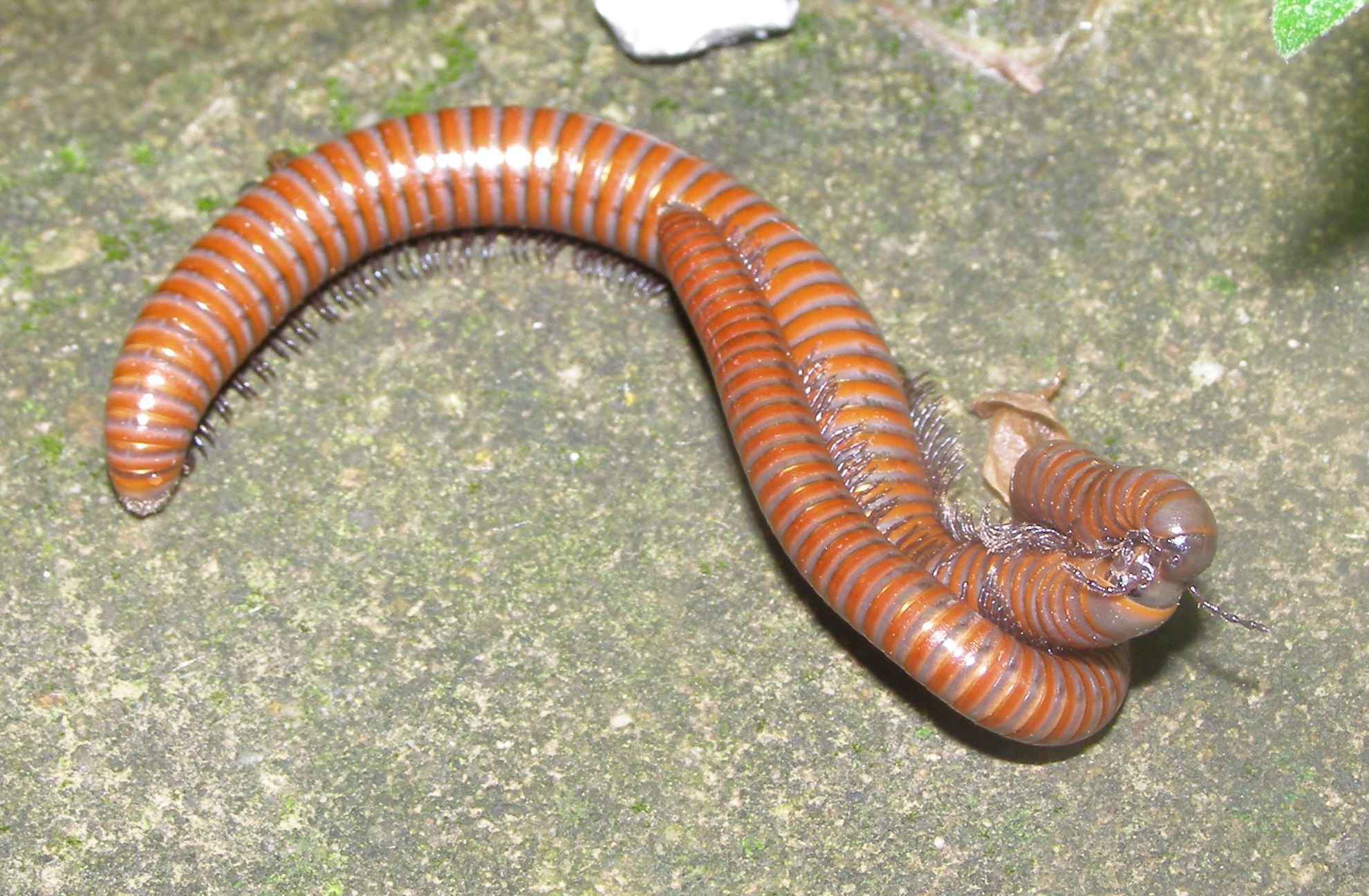 Julus carpathicus-mating